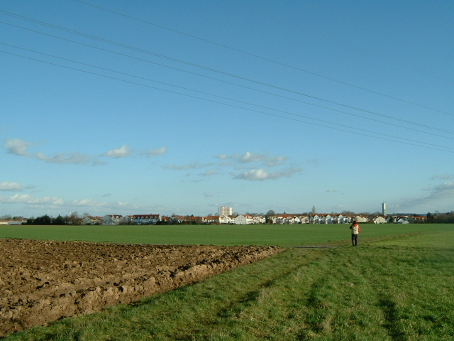 Nieder-Eschbach, borrough of Frankfort, seen from the west.